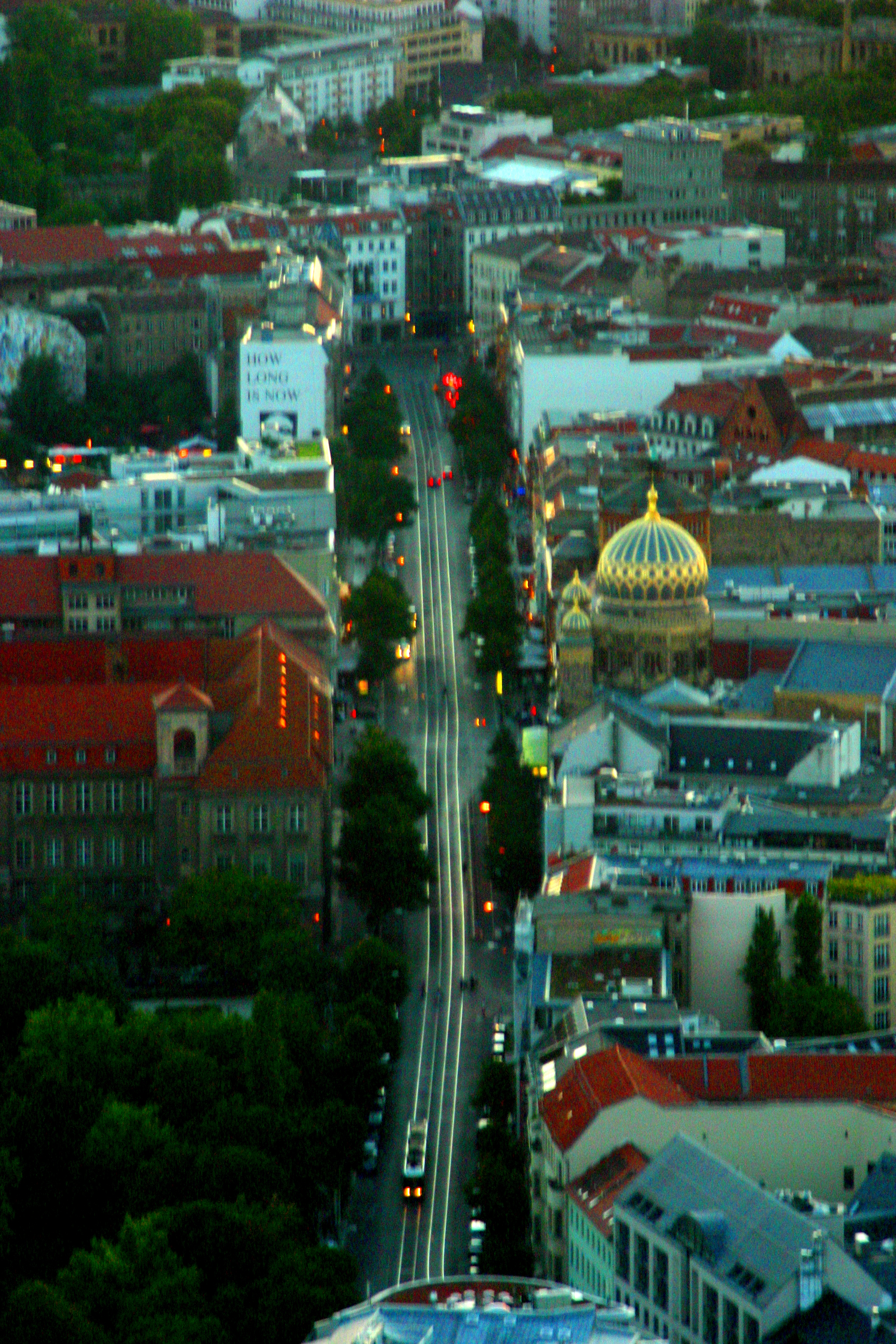 Oranienburger Strasse in Berlin-Mitte, aerial-view-photo taken from the Berliner Fernsehturm